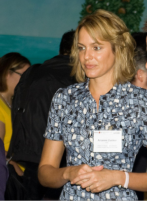 Picture of actress Arianne Zucker.